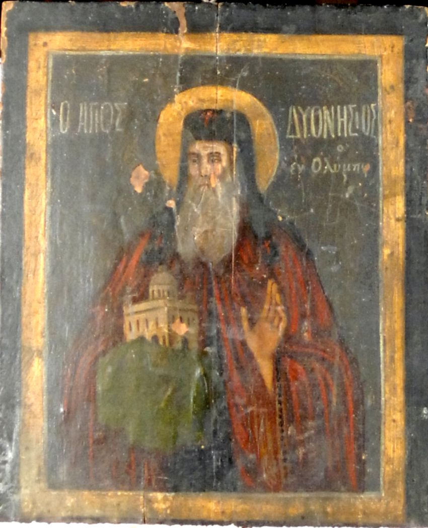 Saint Dionisius of Olympus